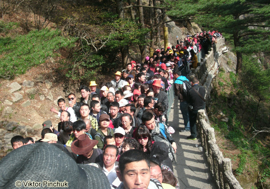 The queue for the cable car (Huangshan)